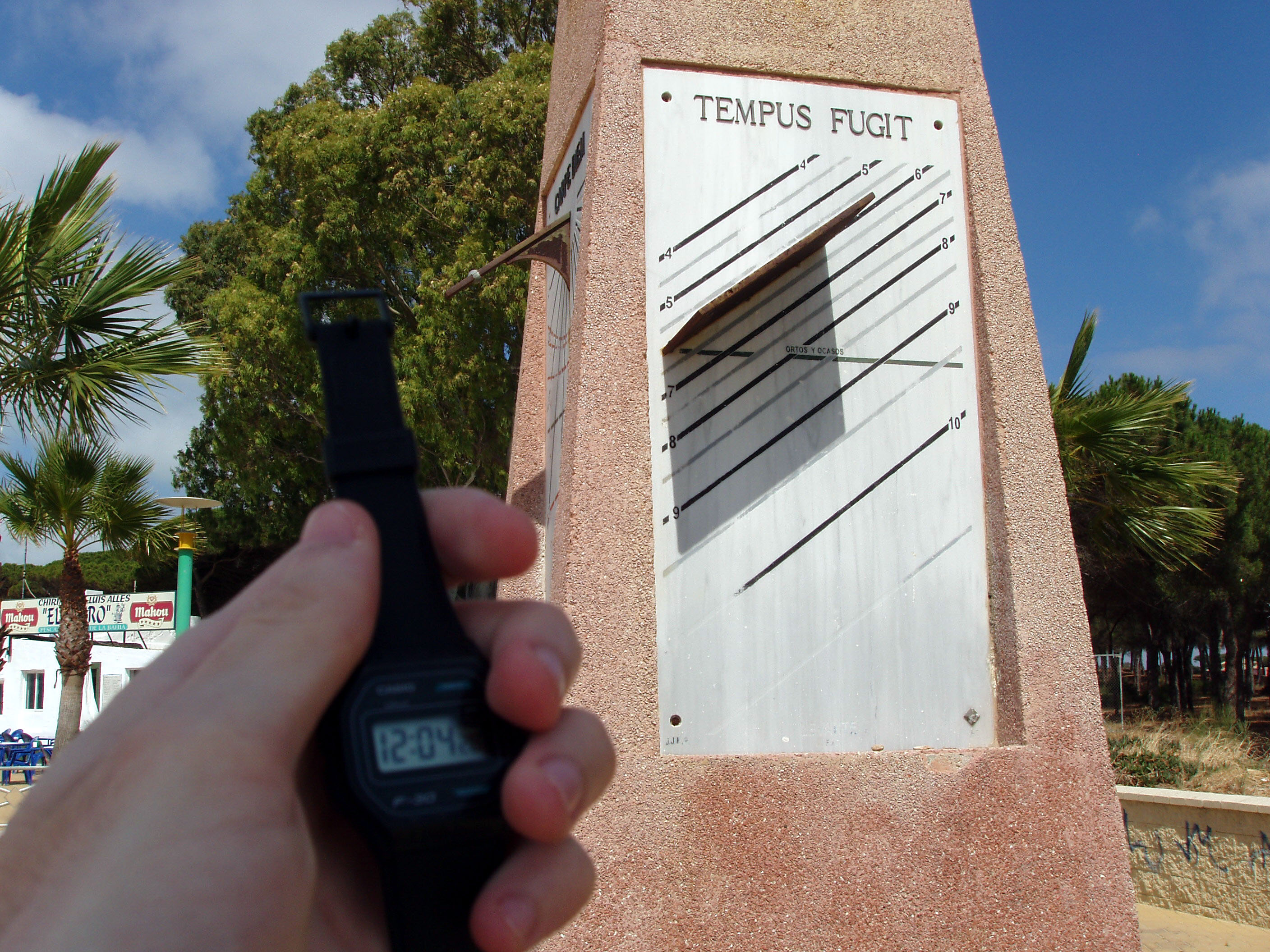 Sundial and Digital Clock.